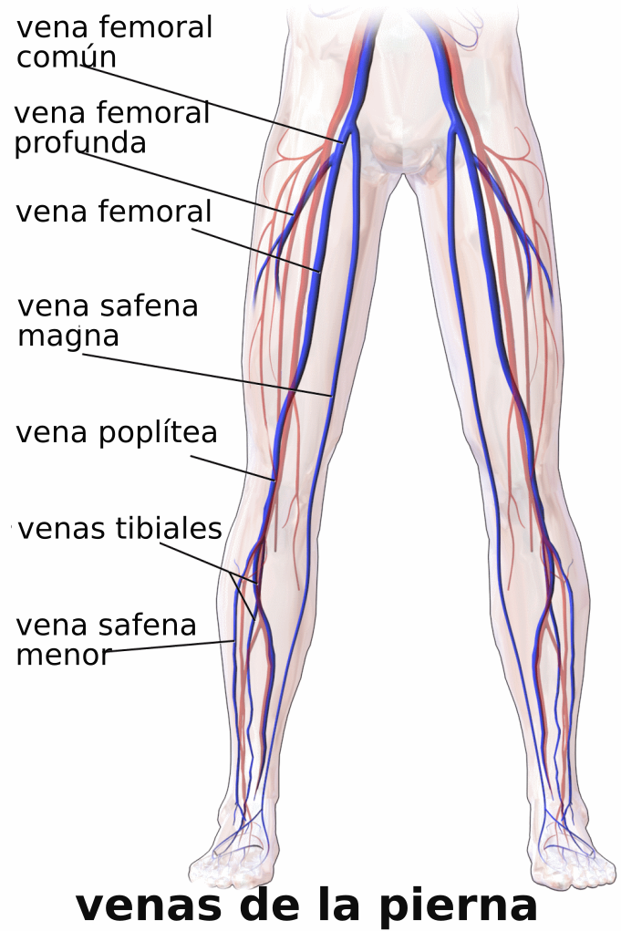 Veins of the Leg